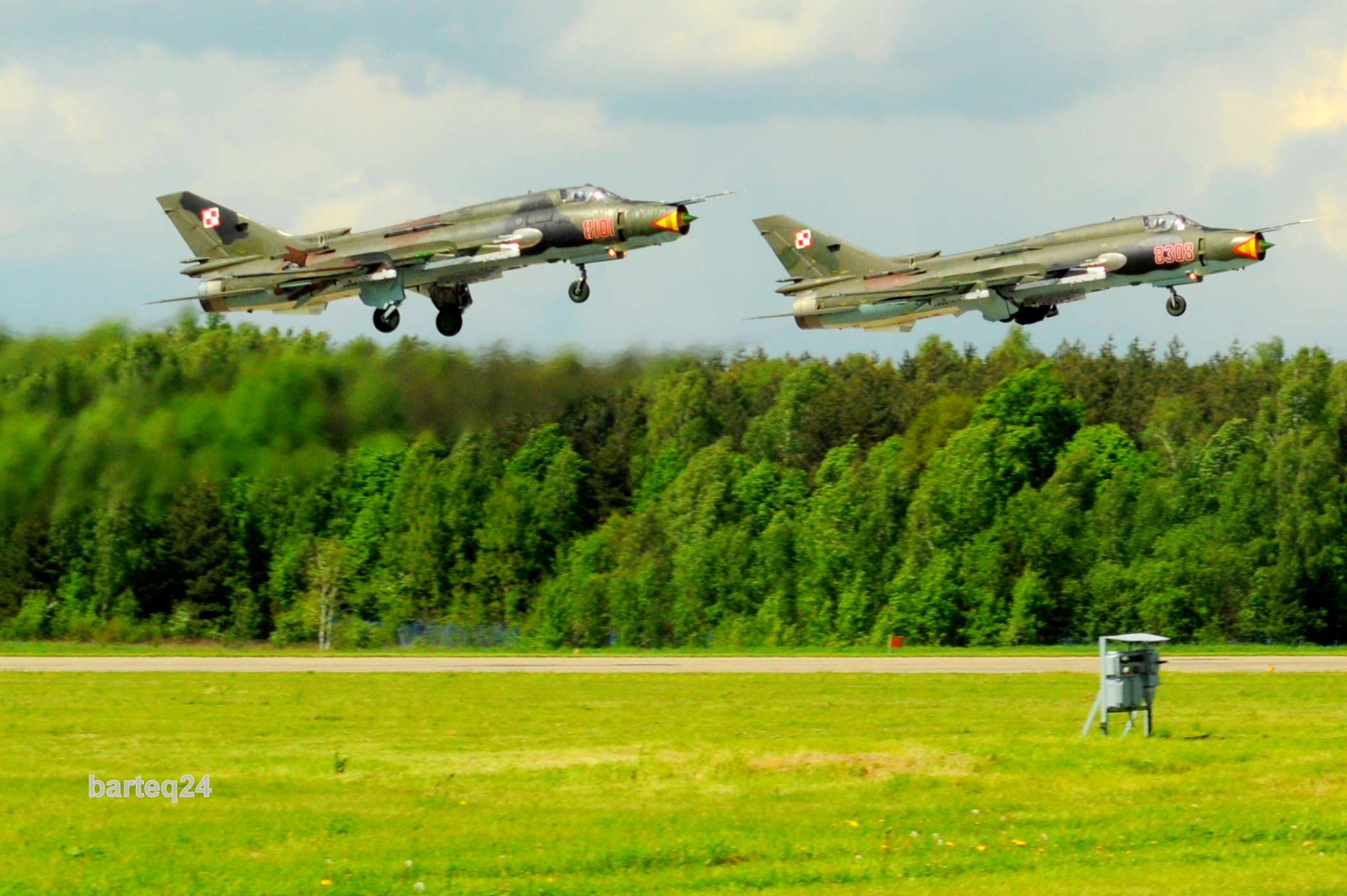 8101 c/n 38101, Polish Air Force, 21st Tactical Air Base, delivered in June 1988. 8308, c/n 28308, Polish Air Force, 21st Tactical Air Base, delivered in August 1985